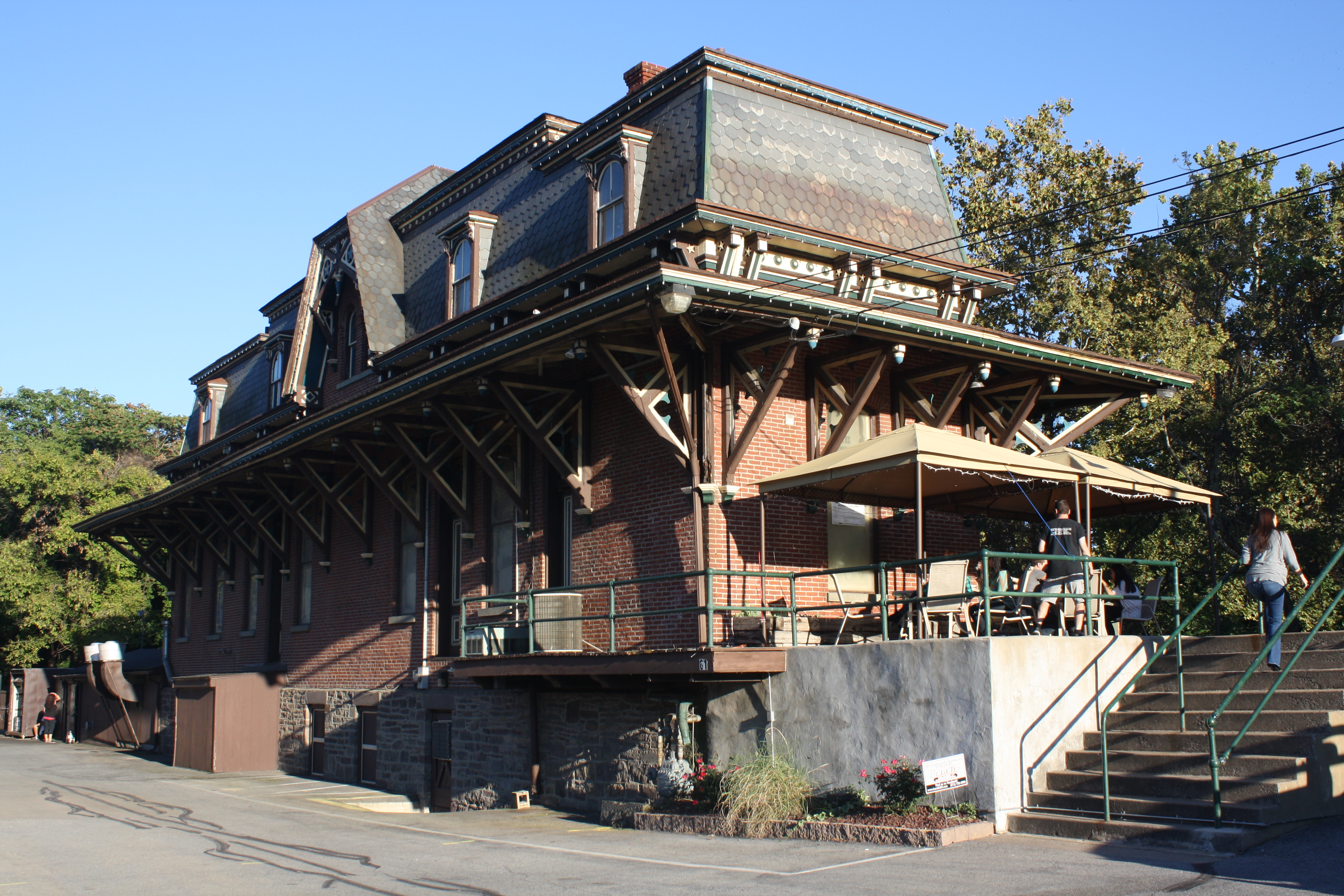 The Wooden Match, 61 West Lehigh Street, Bethlehem, Pennsylvania.